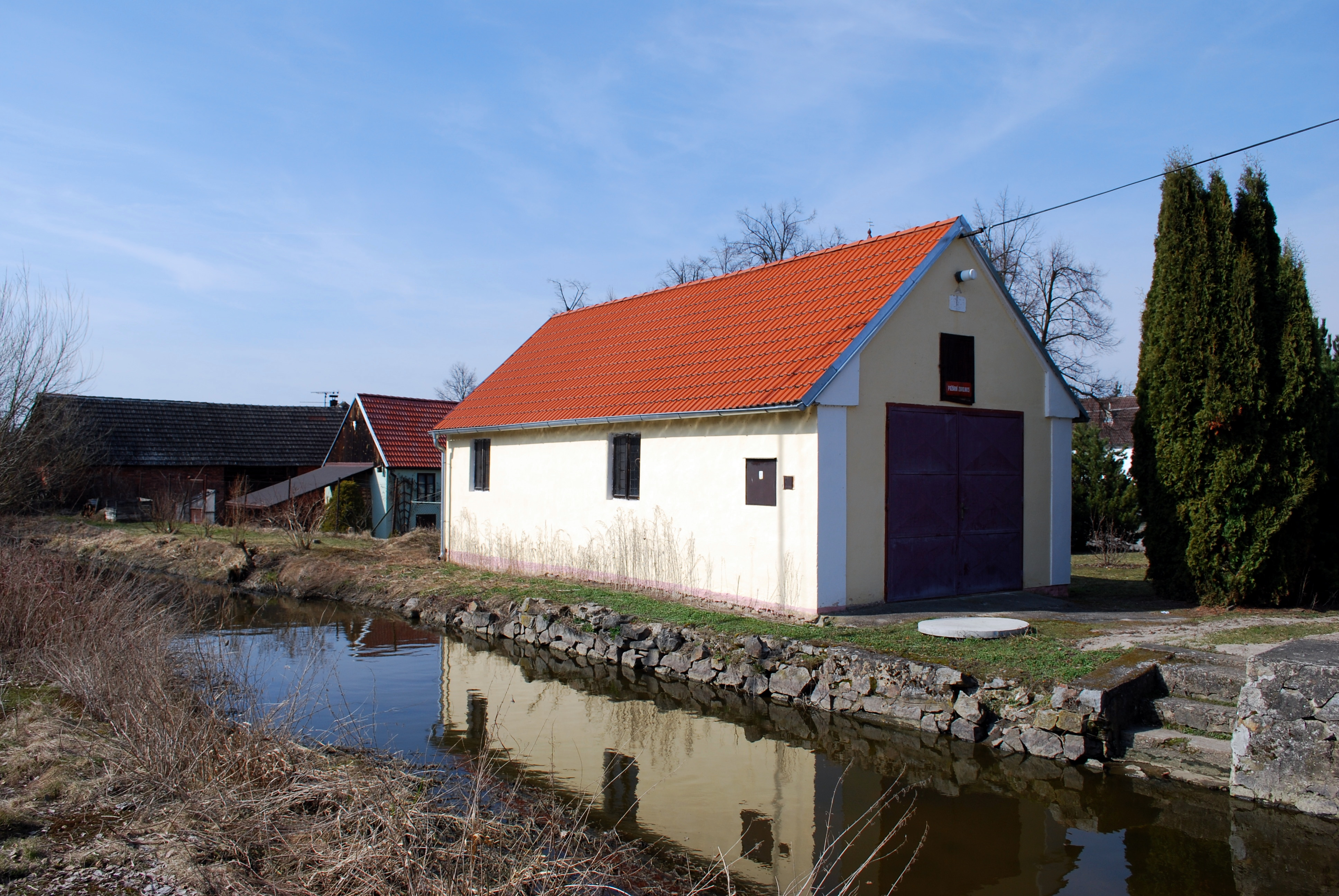 Ponědraž village in Jindřichův Hradec District, Czech republic. This photograph was taken within the scope of the 'Czech Municipalities Photographs' grant. - Google Maps - Google Earth